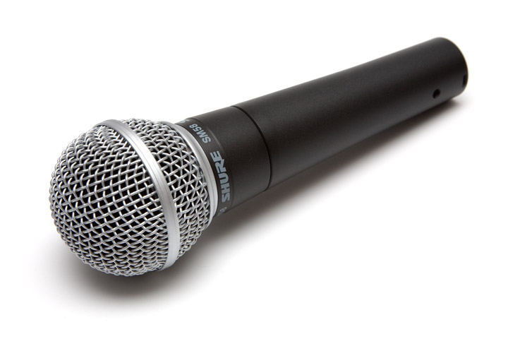 Micro Shure SM58